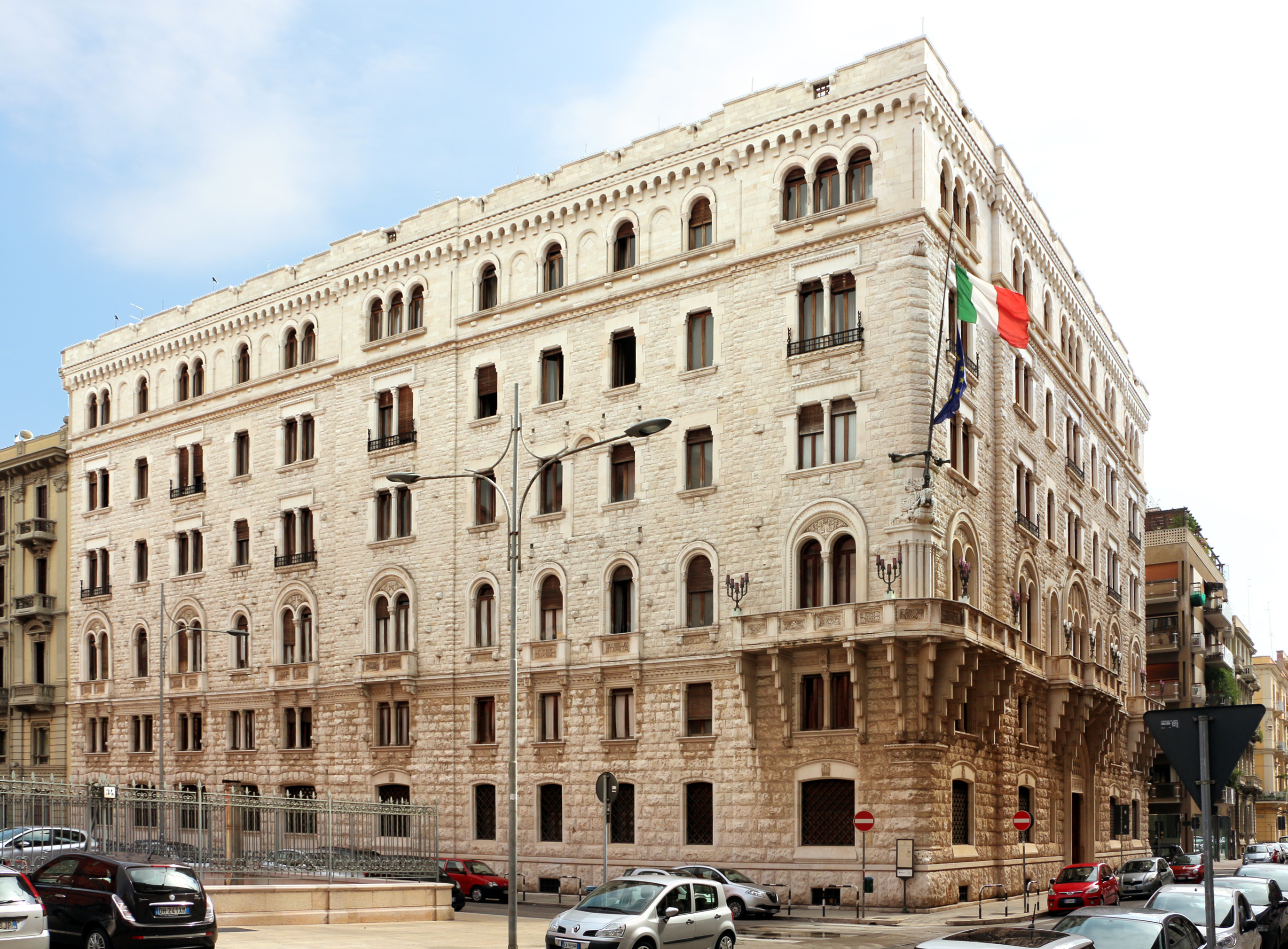 Palazzo dell'Acquedotto Pugliese (Bari)